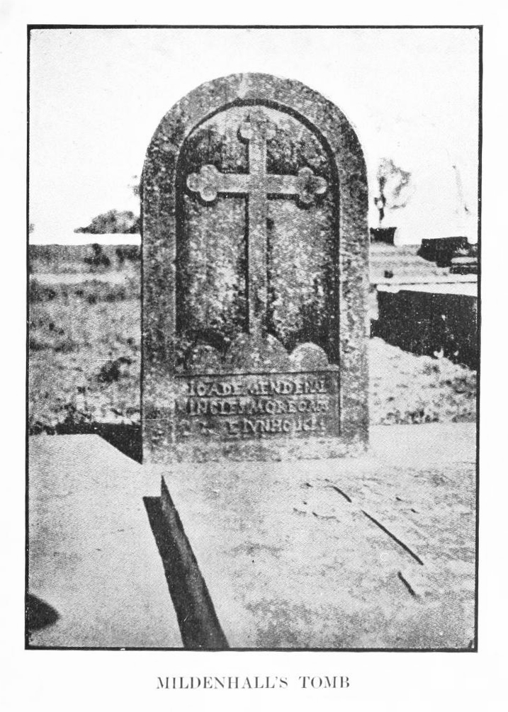 Tomb of Lord Mildenhall